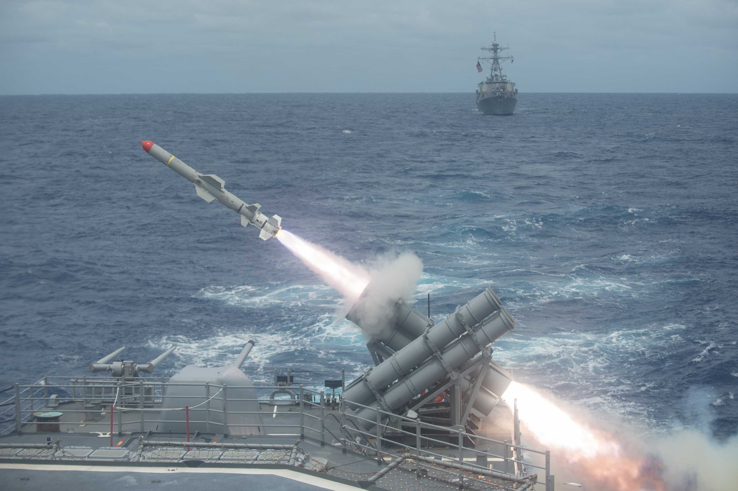 140915-N-UF697-087 WATERS NEAR GUAM (Sept. 15, 2014) A Harpoon missile is launched from the Ticonderoga-class guided-missile cruiser USS Shiloh (CG 67) during a live-fire exercise. Shiloh is on patrol with the George Washington Carrier Strike Group supporting security and stability in the Indo-Asia-Pacific region. (U.S. Navy photo by Mass Communication Specialist 3rd Class Kevin V. Cunningham/Released)